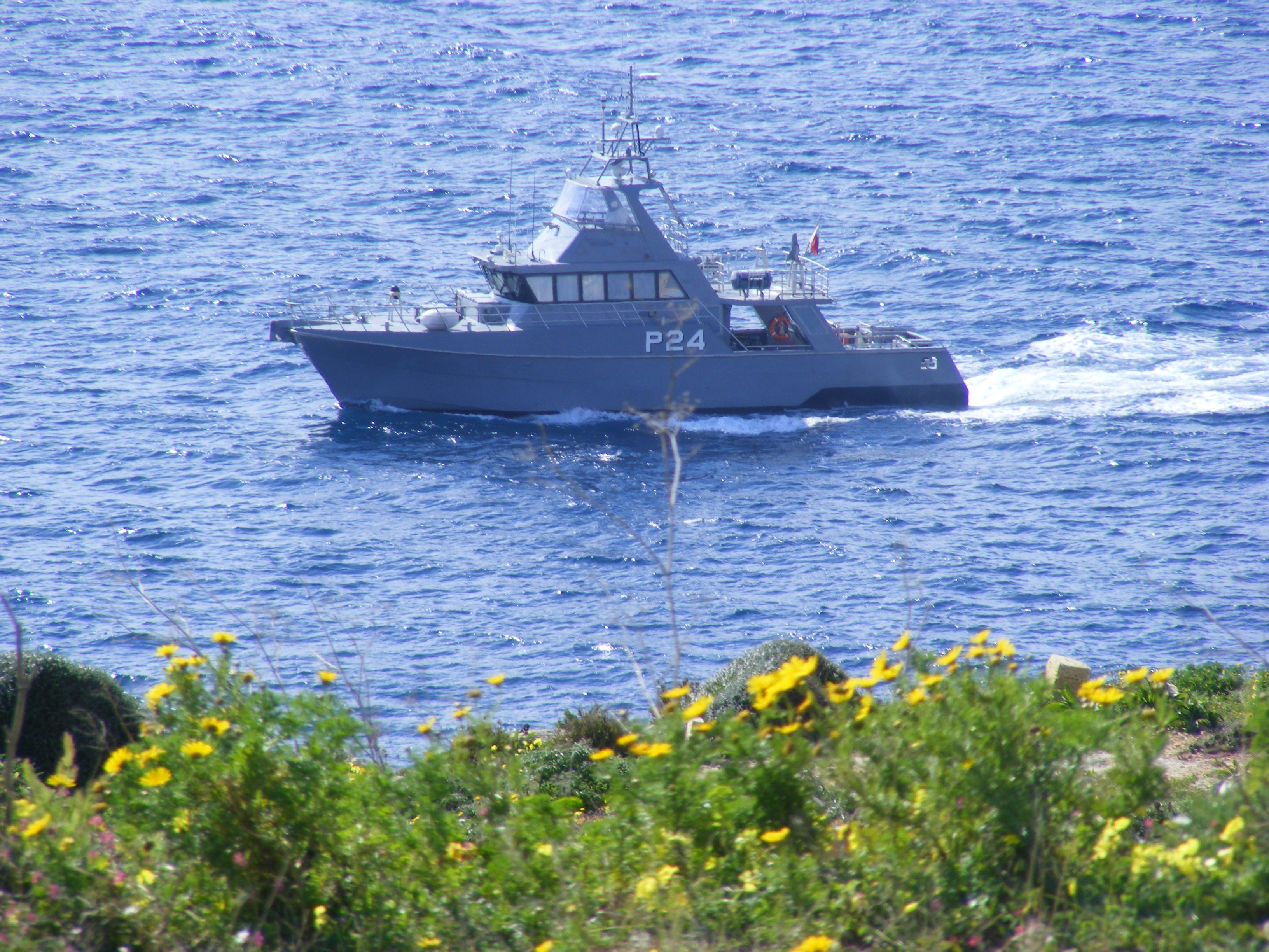 One of four inshore patrol craft for Malta, built in Australia, launched in 2010